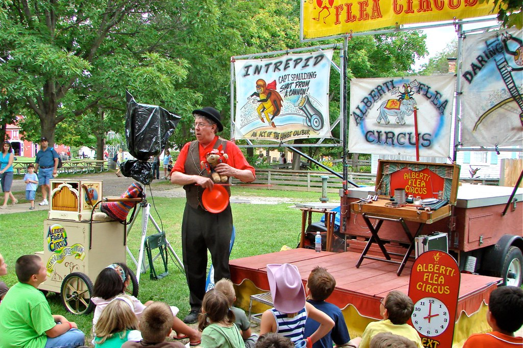 Shoby, the Bear, performing before the flea circus begins